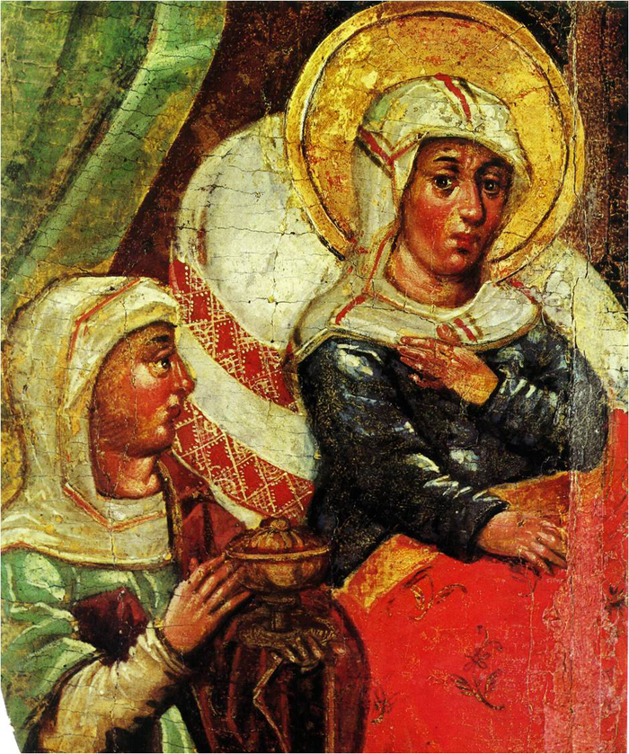 fragment of the icon "Nativity of the virgin" (1649). Artist Peter Euseevich (Belarus)